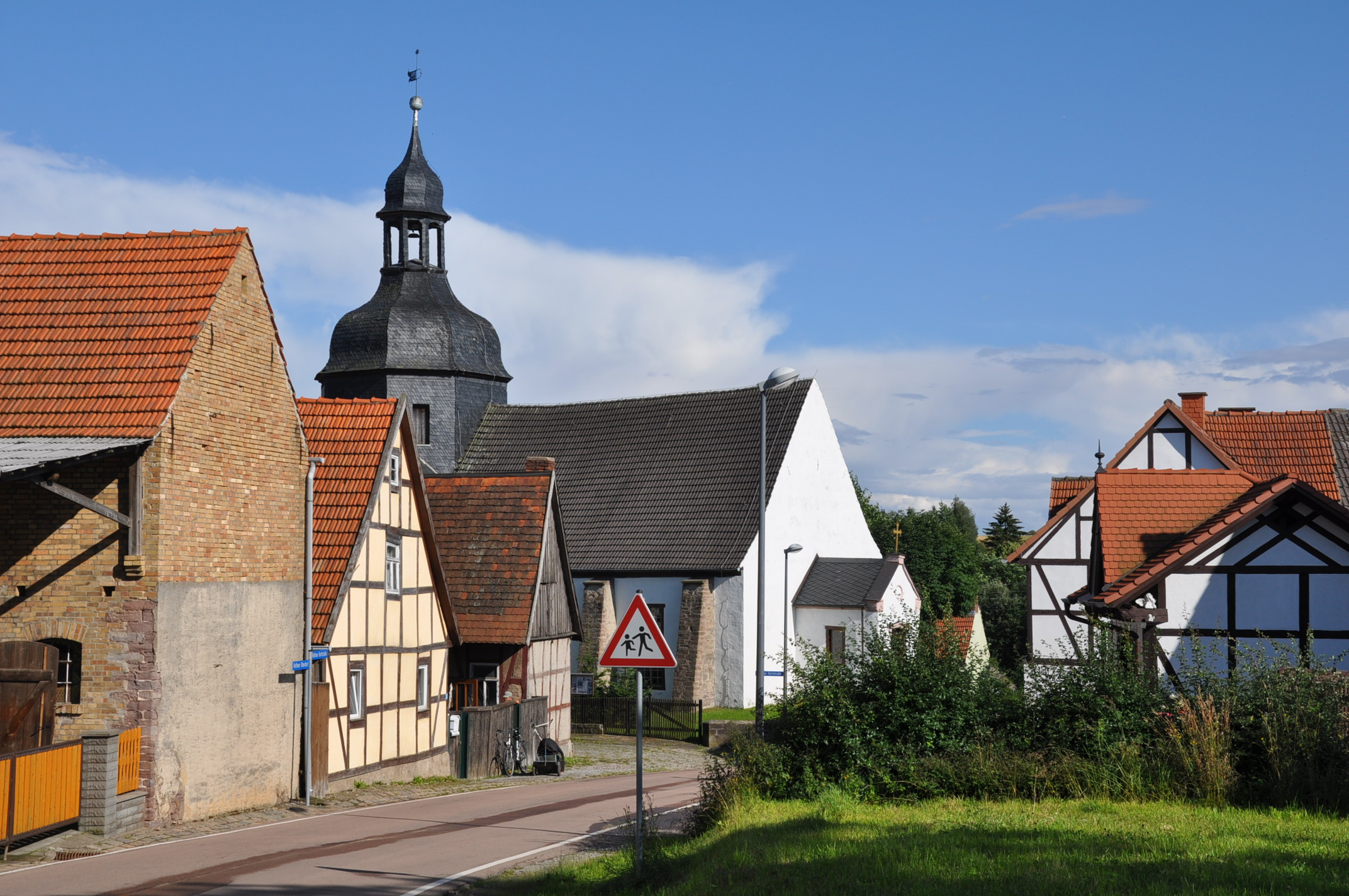 The Rothaer Dorfstraße in Rotha with the Church of the Lutheran community "St. Nicholas am Schloßberg" (Municipality Sangerhausen, Harz mountains, Saxony-Anhalt, Germany).